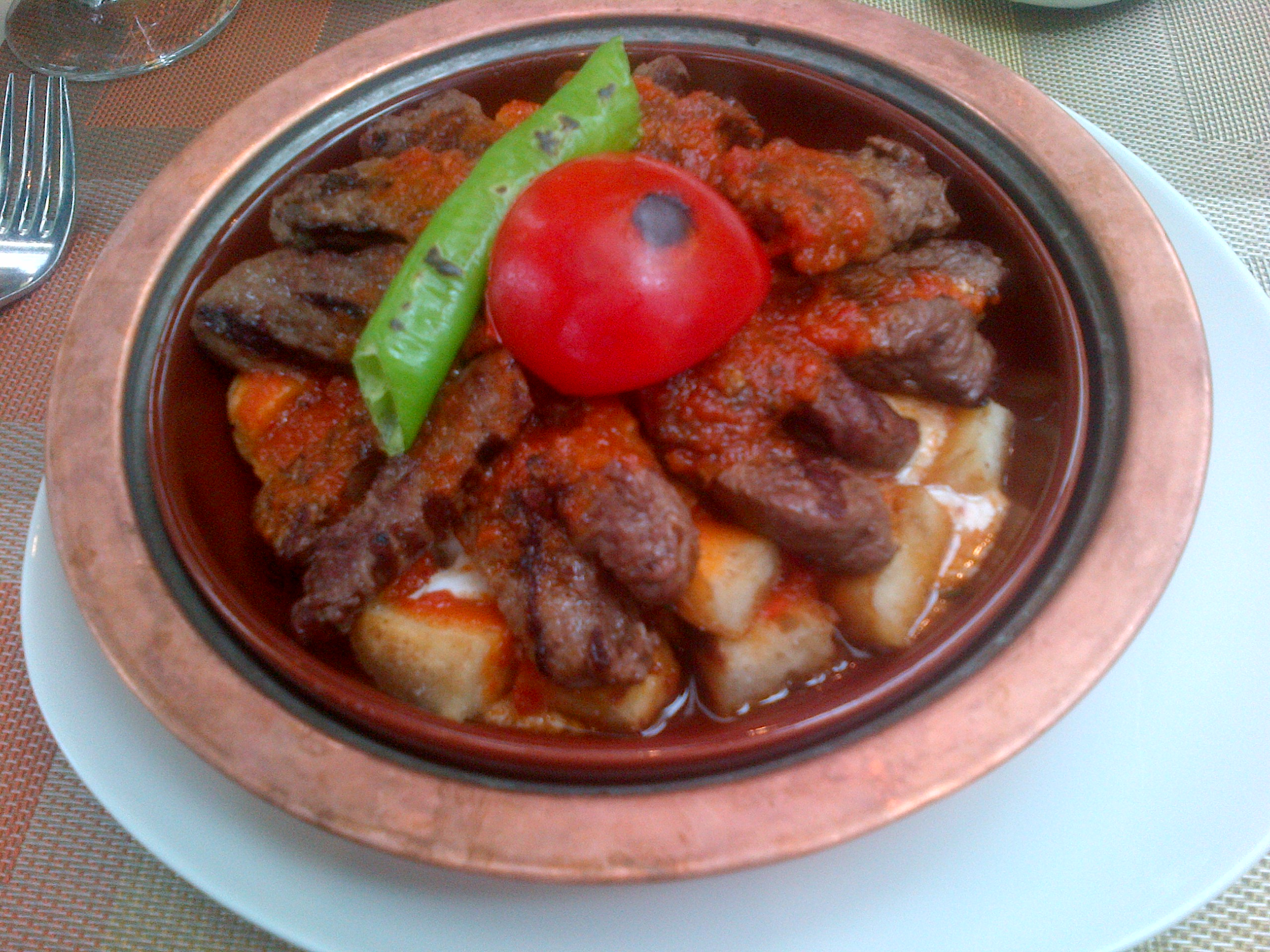 "Pideli köfte" (yoghurt at the bottom) at a Turkish restaurant in Istanbul.